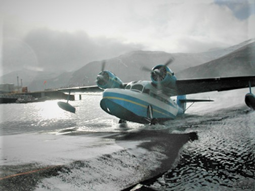 I took this picture Pabobfin 06:27, 24 March 2006 (UTC) This is a PenAir (Alaska) Goose climbing out of Akutan bay in the winter of 2005. Our company, OTG Adventures Inc. places us as physician assistants, and this is one of the places we work. Enjoy! In 2013, a new airport opened on Akun and now a hovercraft services Akutan, though less regularly. P.S. Flying in this Goose is such fun, and to think there are so few left!